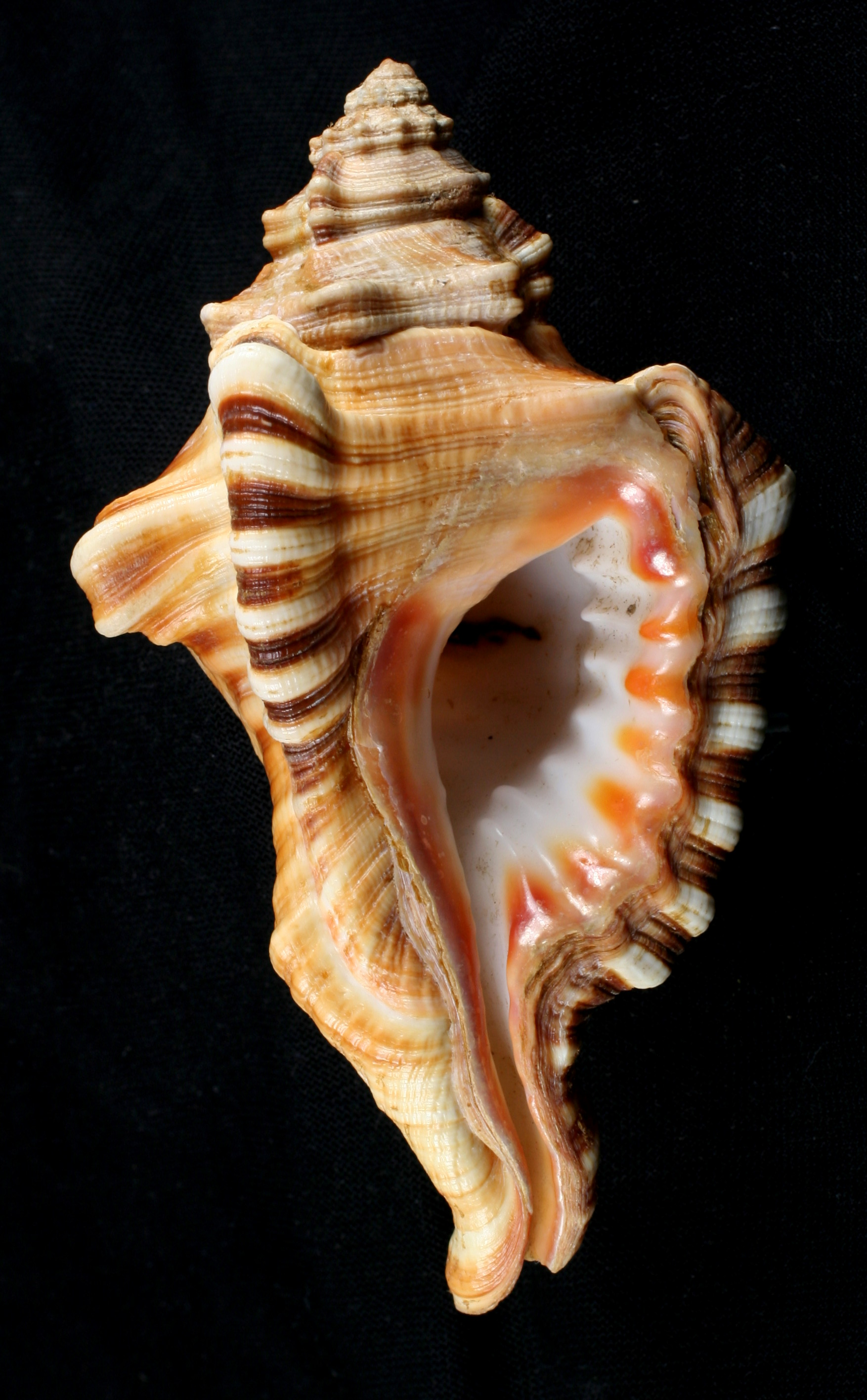 Ranellidae: Lotoria perryi (Emerson & Old, 1963)